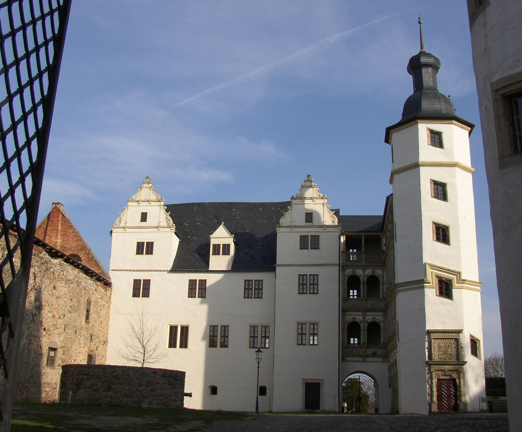 Hobeck Castle in Leitzkau in Saxony-Anhalt, Germany